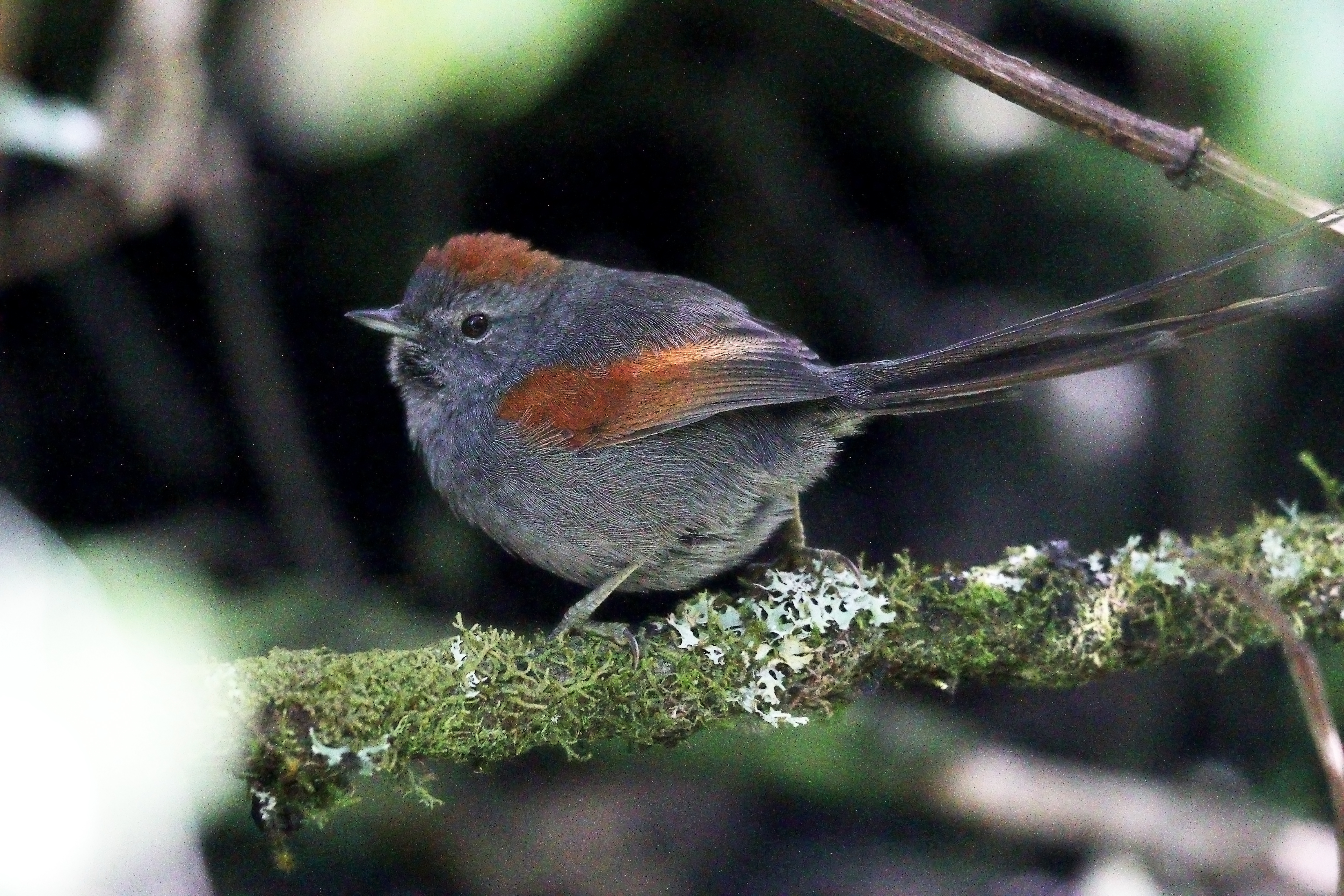 Apurímac Spinetail; Ampay National Sanctuary, Abancay, Apurímac, Perú